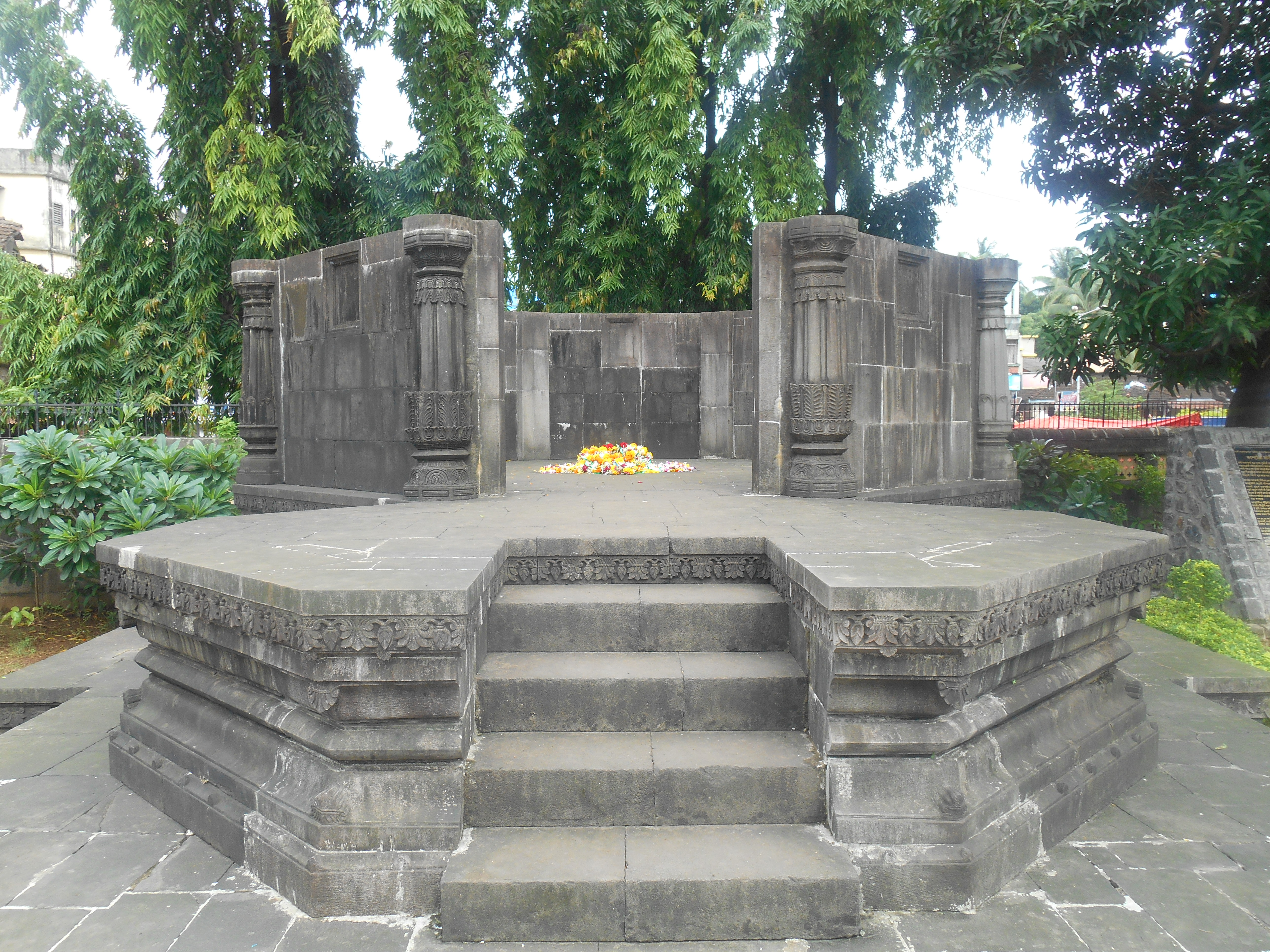 This is the Samadhi (Hindu Memorial) of Sarkhel Kanhoji Angre of Maratha Navy.